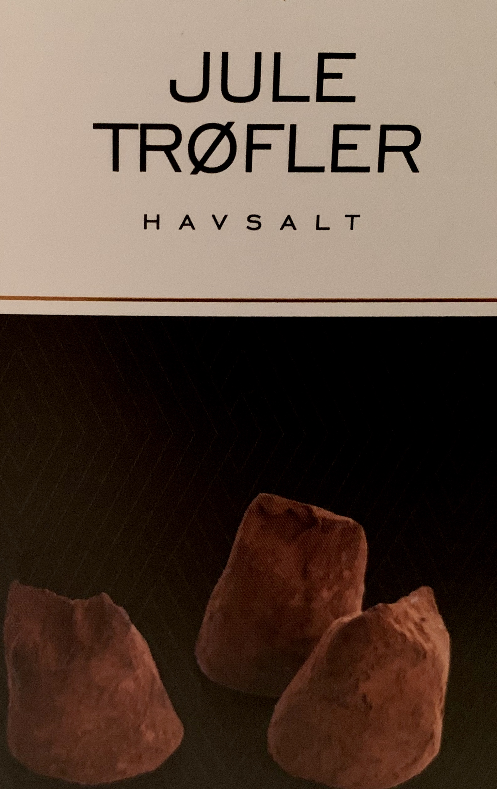 Packaging with chocolate truffles with sea salt